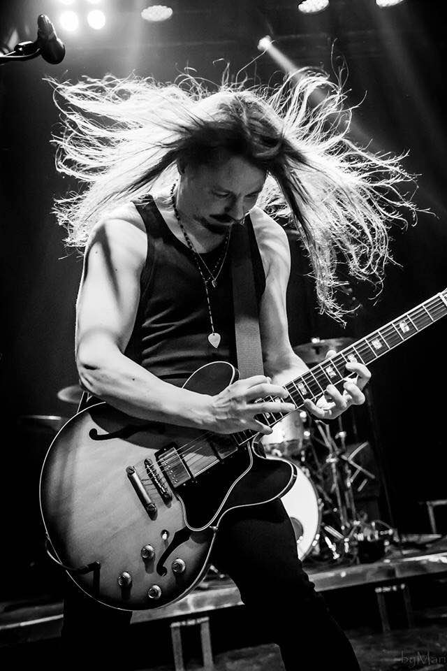 Guitarrist Tuomas Wäinölä performing.